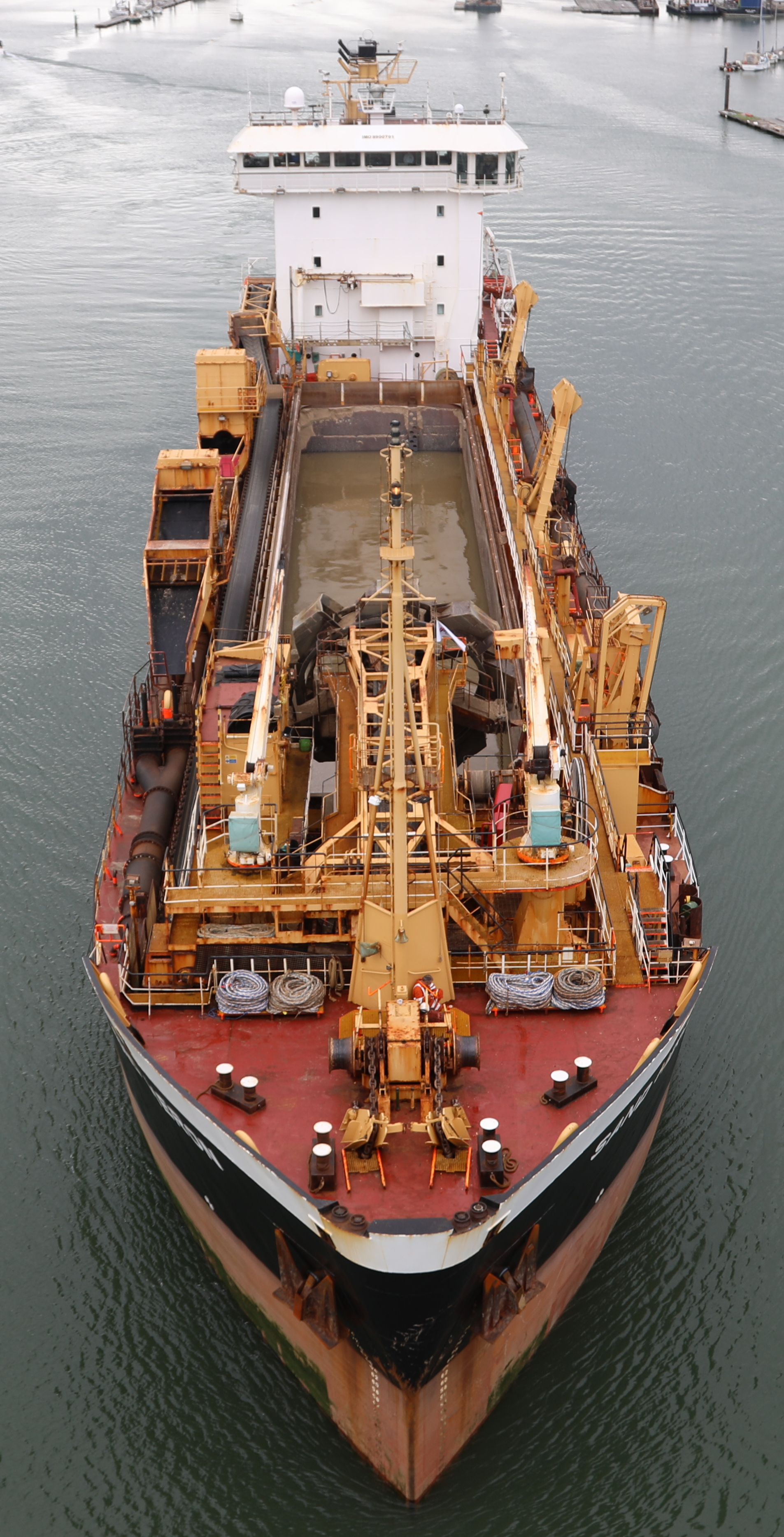 Photo of the hopper dredger MV sand heron (IMO: 8900701) from the front and slightly above.